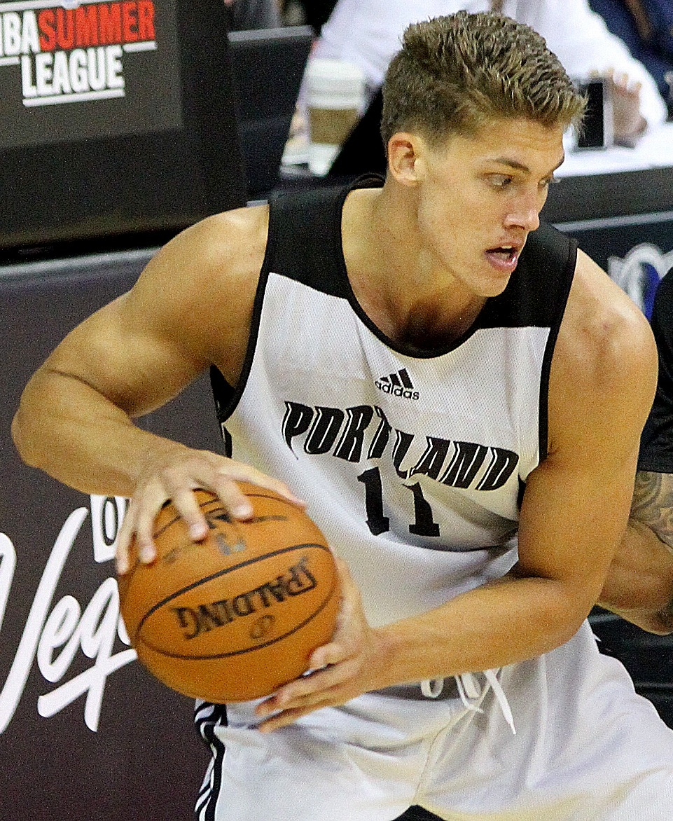 Meyers Leonard playing for the Trail Blazers in the 2013 Las Vegas Summer League